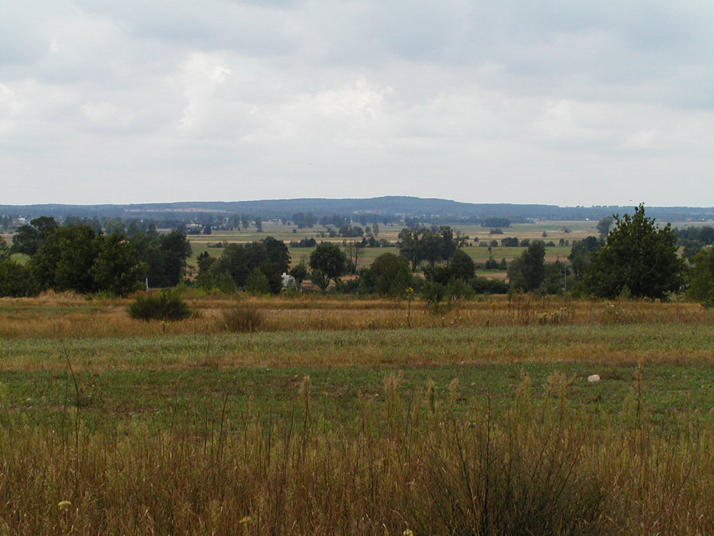 Diabla Góra, a nature reserve in south-central Poland